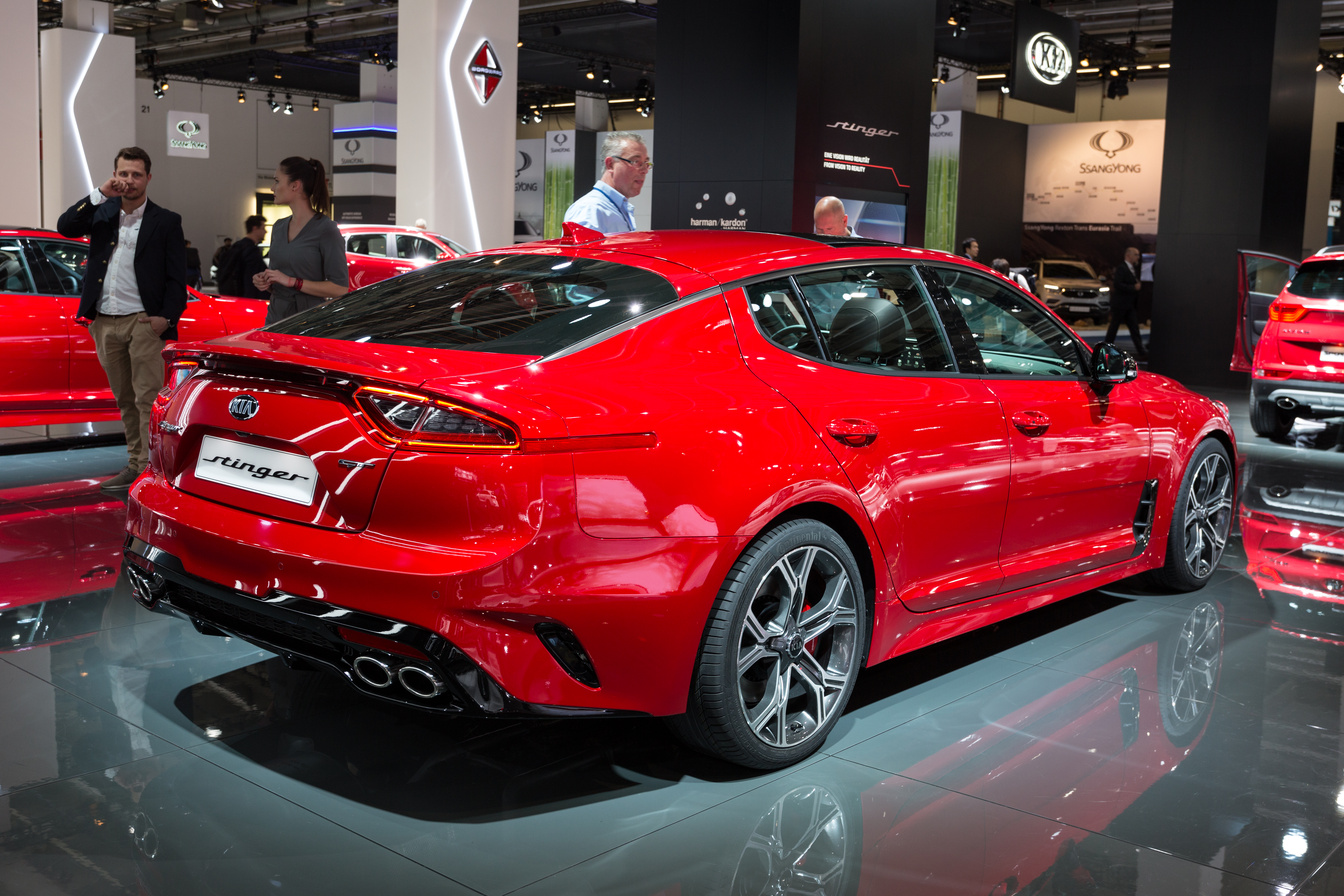 Kia Stinger, IAA 2017